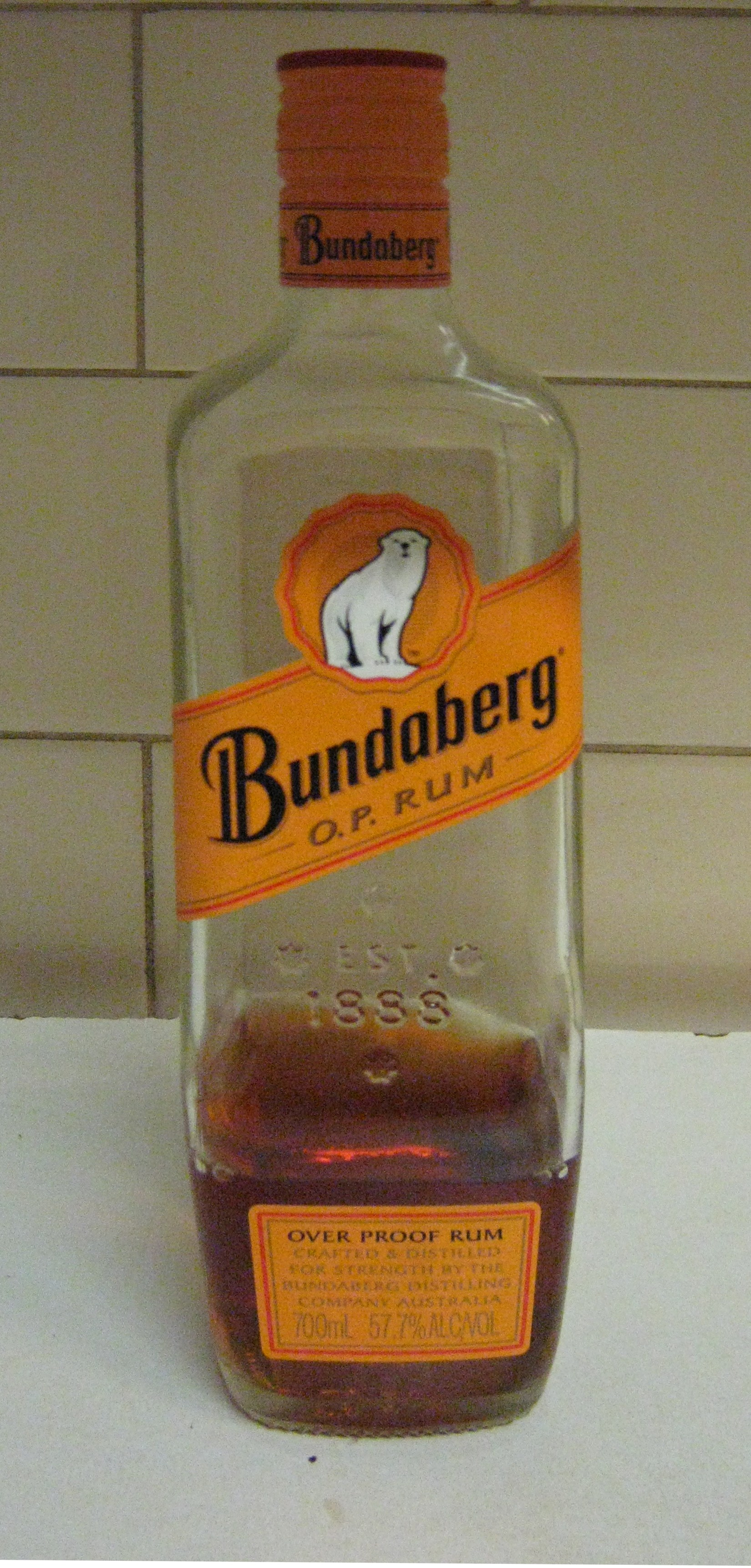 Bundaberg Rum Bottle, I found in a hostel in Australia